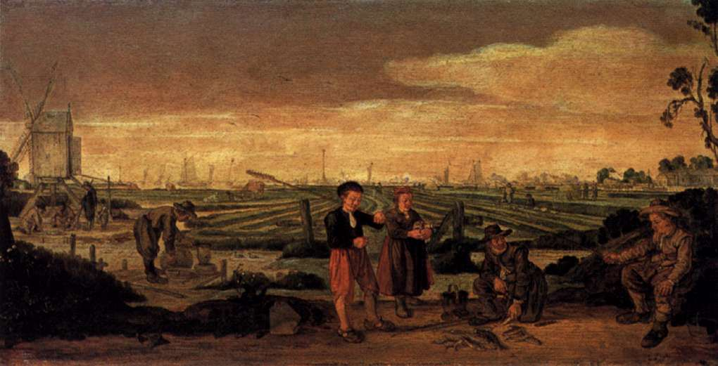 Landscape with fishermen and farmers. Pendant of the painting Fishermen and hunters (Rijksmuseum Amsterdam, inv.no. SK-A-1447).